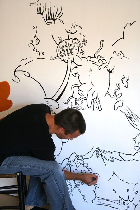 Stephen Tompkins working in his Southern California studio